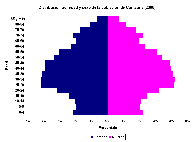 Piramid population of Cantabria. 2006